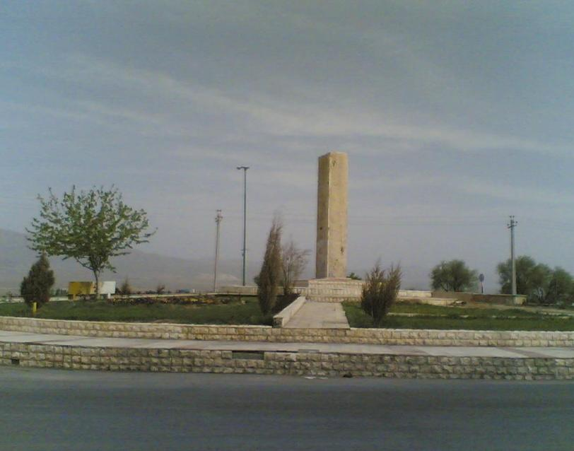 Stone Square, NimVar, Iran